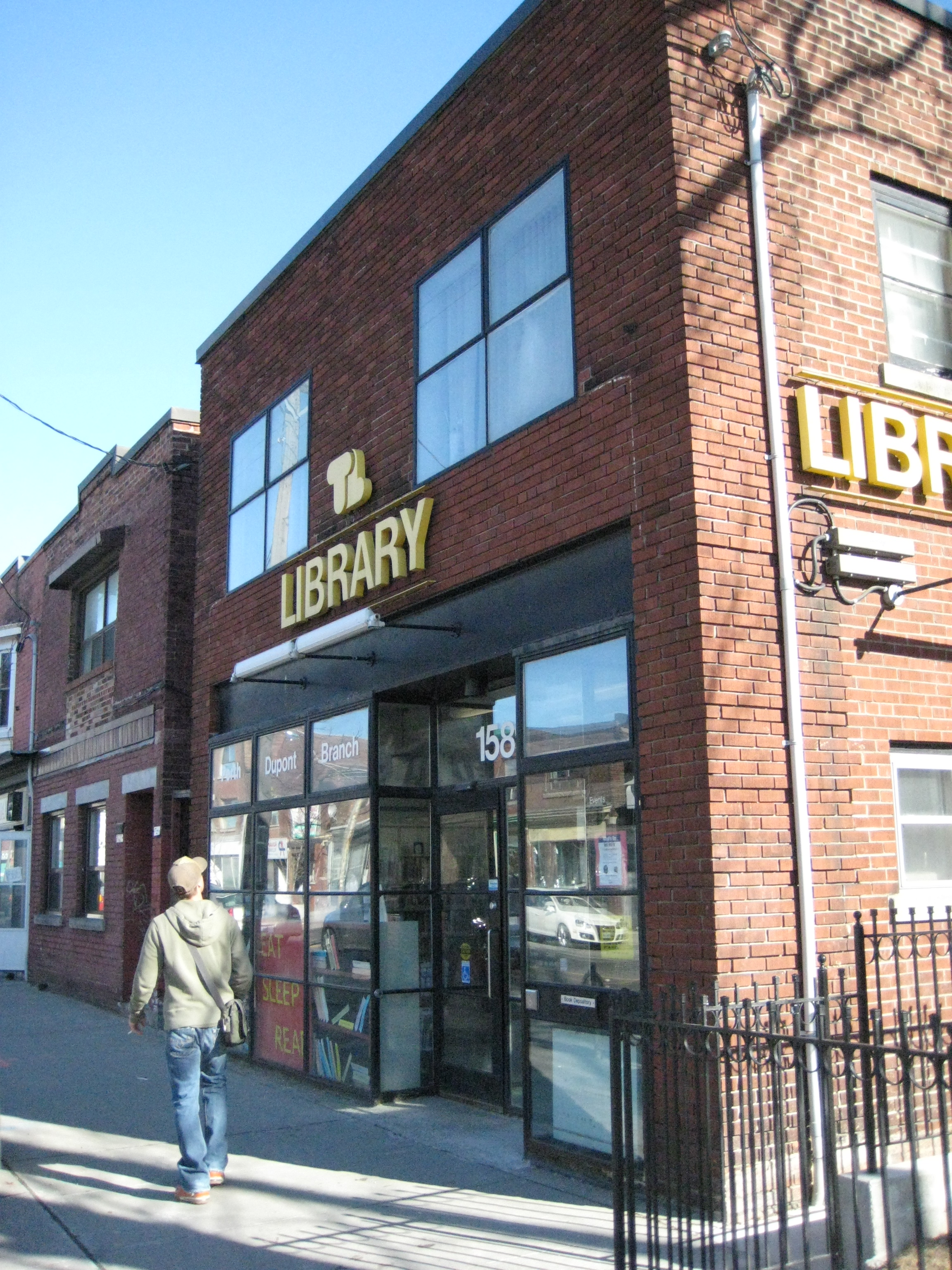 TPL Perth Dupont